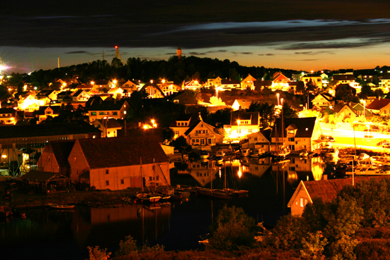 Photographer: Anders Almaas The picture was taken August 2005 on the bridge between Sølyst and Engøy.